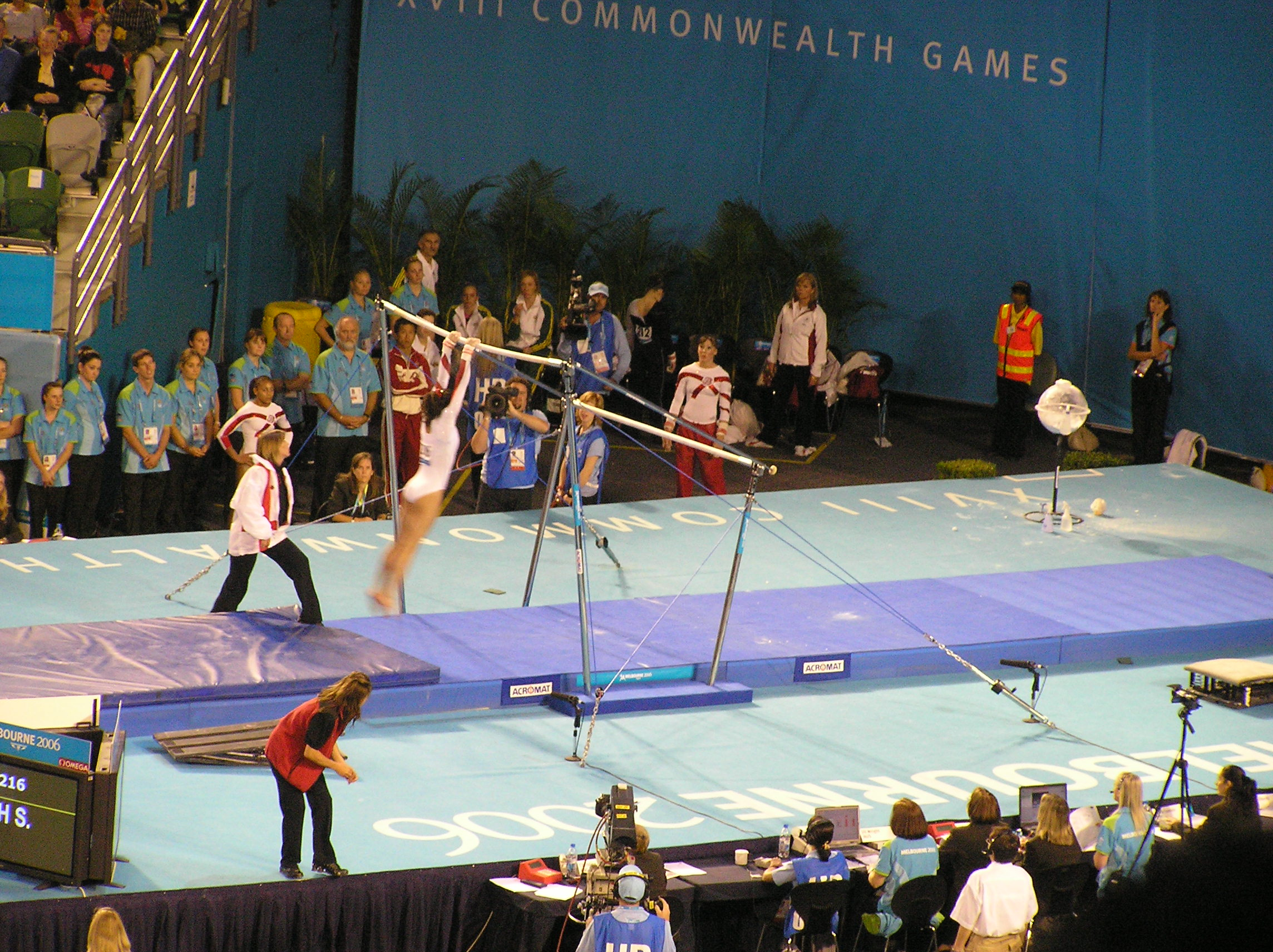 Uneven Bars Commonwealth Games